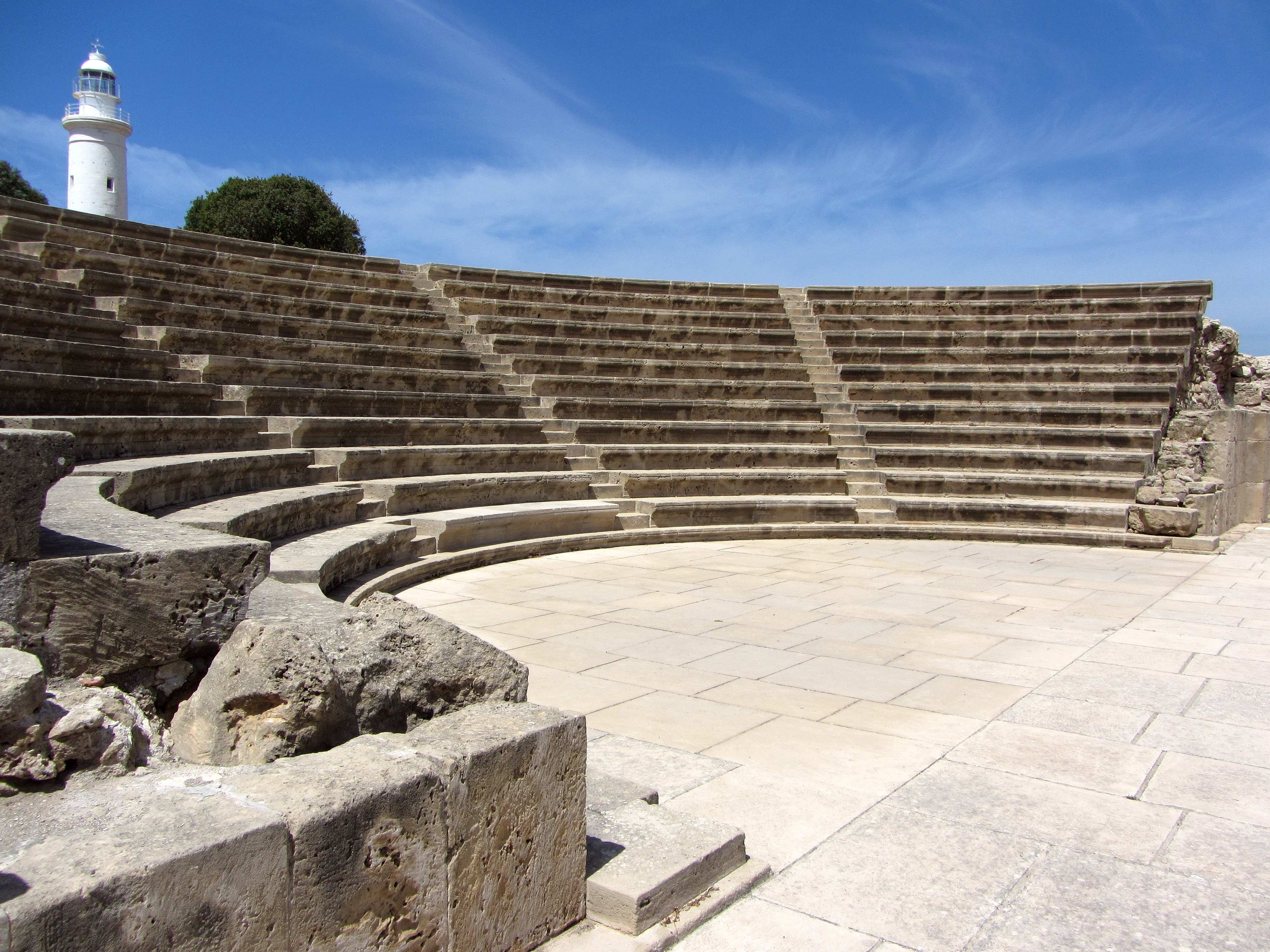 Archaeological Park Paphos (Cyprus), Lighthouse and Odeon